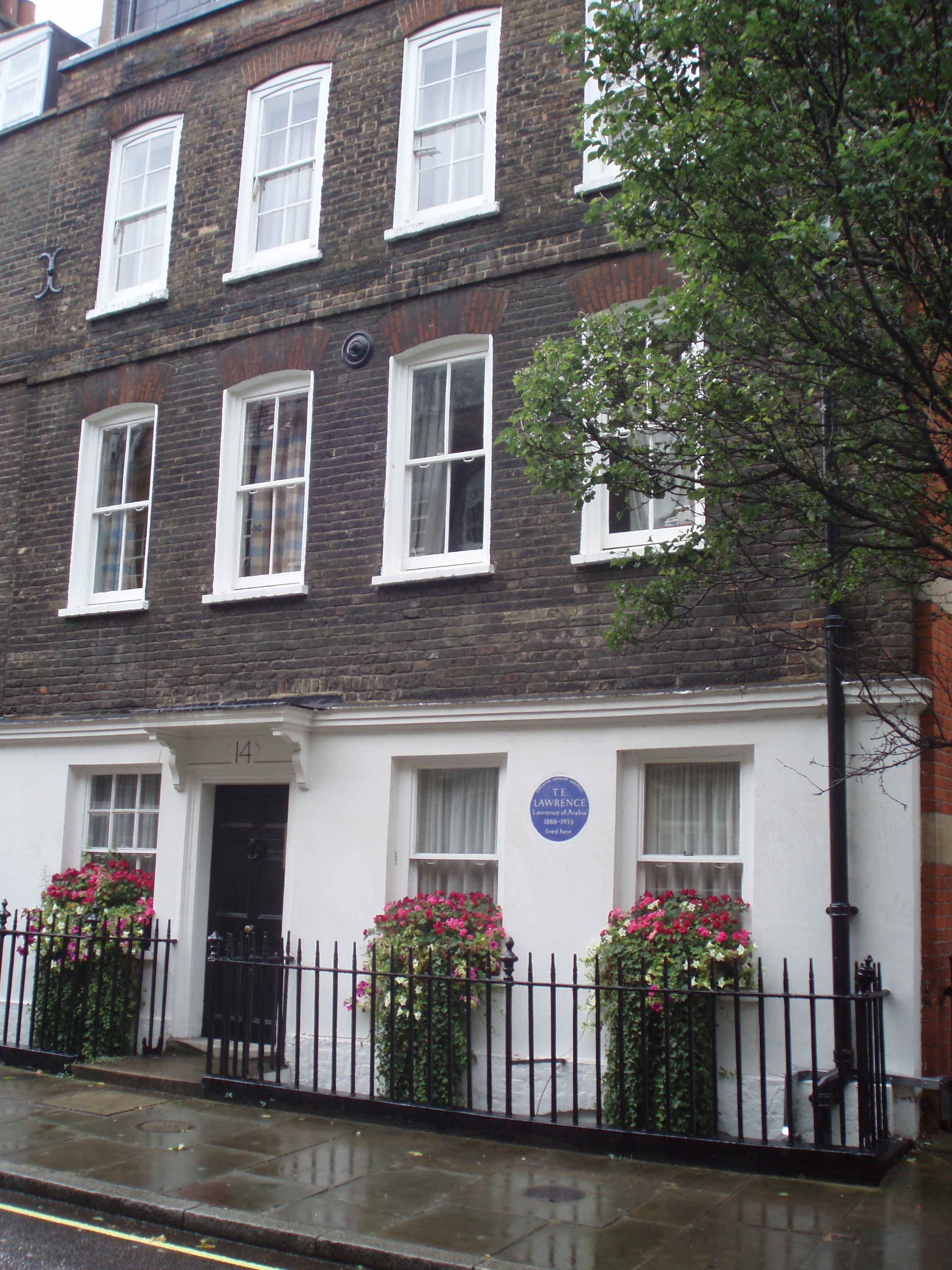 Photo tkn 23rd August 2007